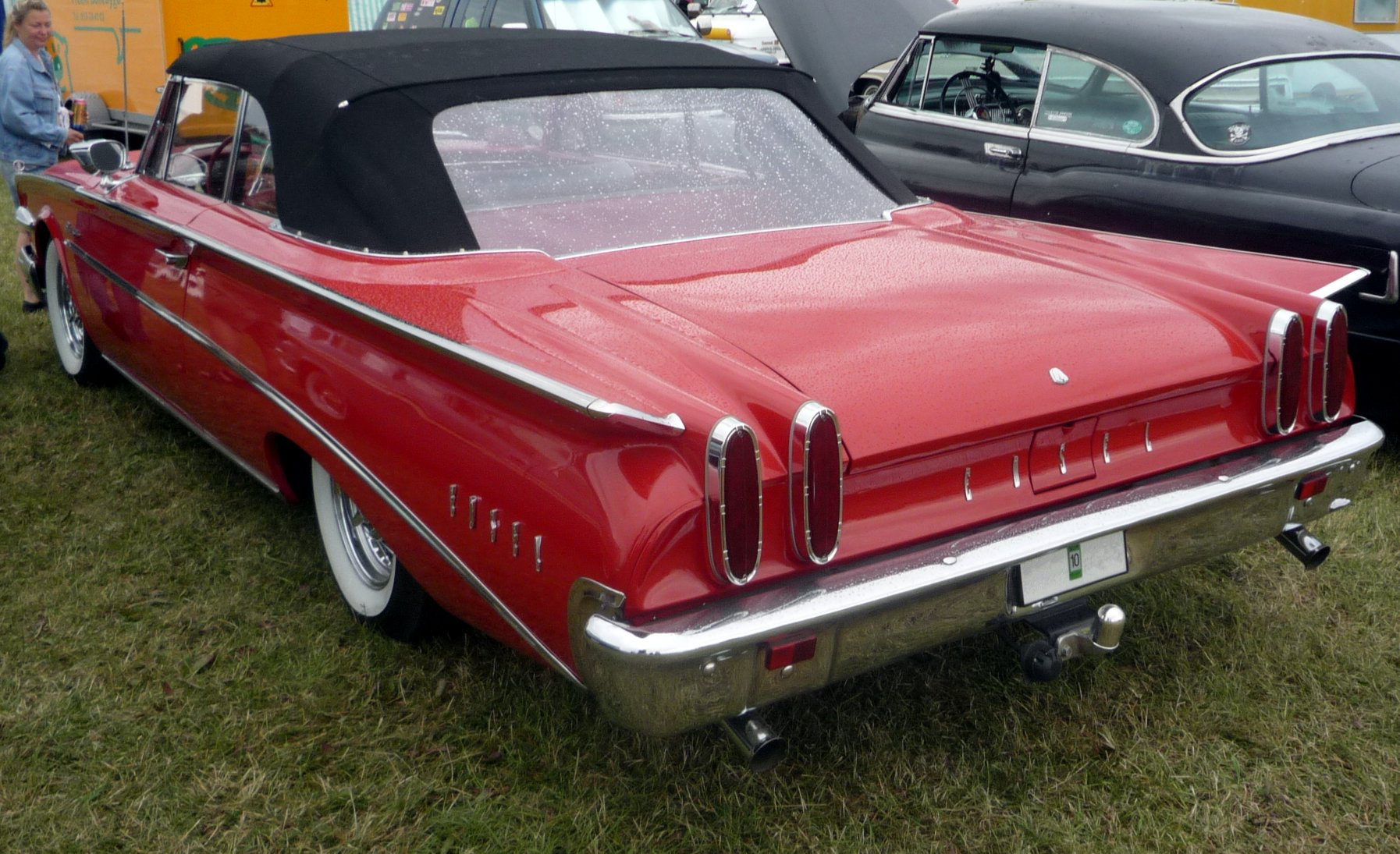 Red 1960 Edsel Ranger Convertible. 185hp V8, one of 76 built in this bodystyle. Chassis number 0U15W700xxx makes this a true 1960 Convertible.